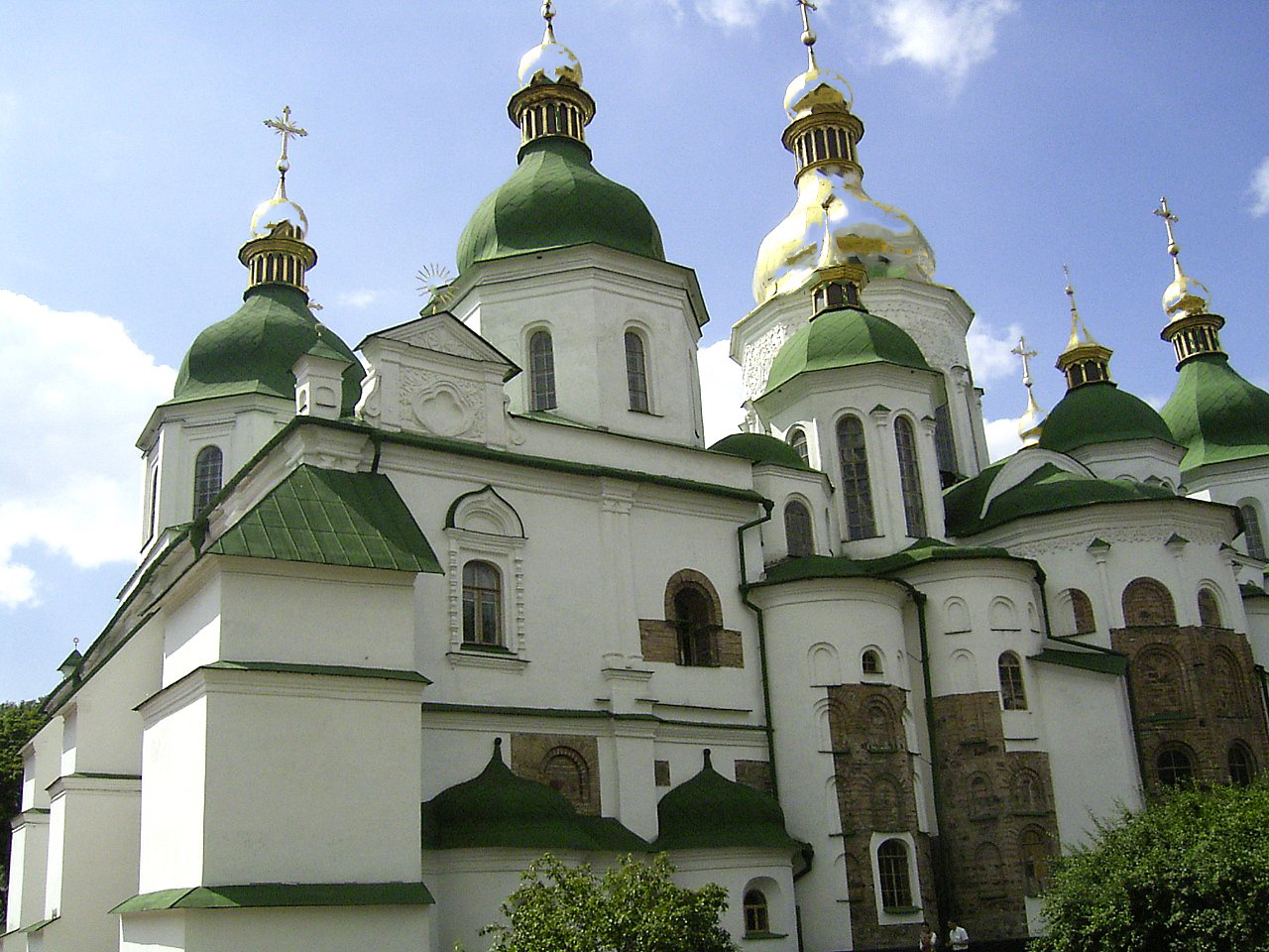 Description: St. Sophia, Kiev Author: Alexander Noskin Date: 8-12-2005